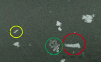 During the CRYSTAL-FACE field campaign, scientists collected samples of ice crystals like this one. The three circles define three different types of crystals, showing that within one cloud there can be many distinctly different shapes and sizes of crystals.